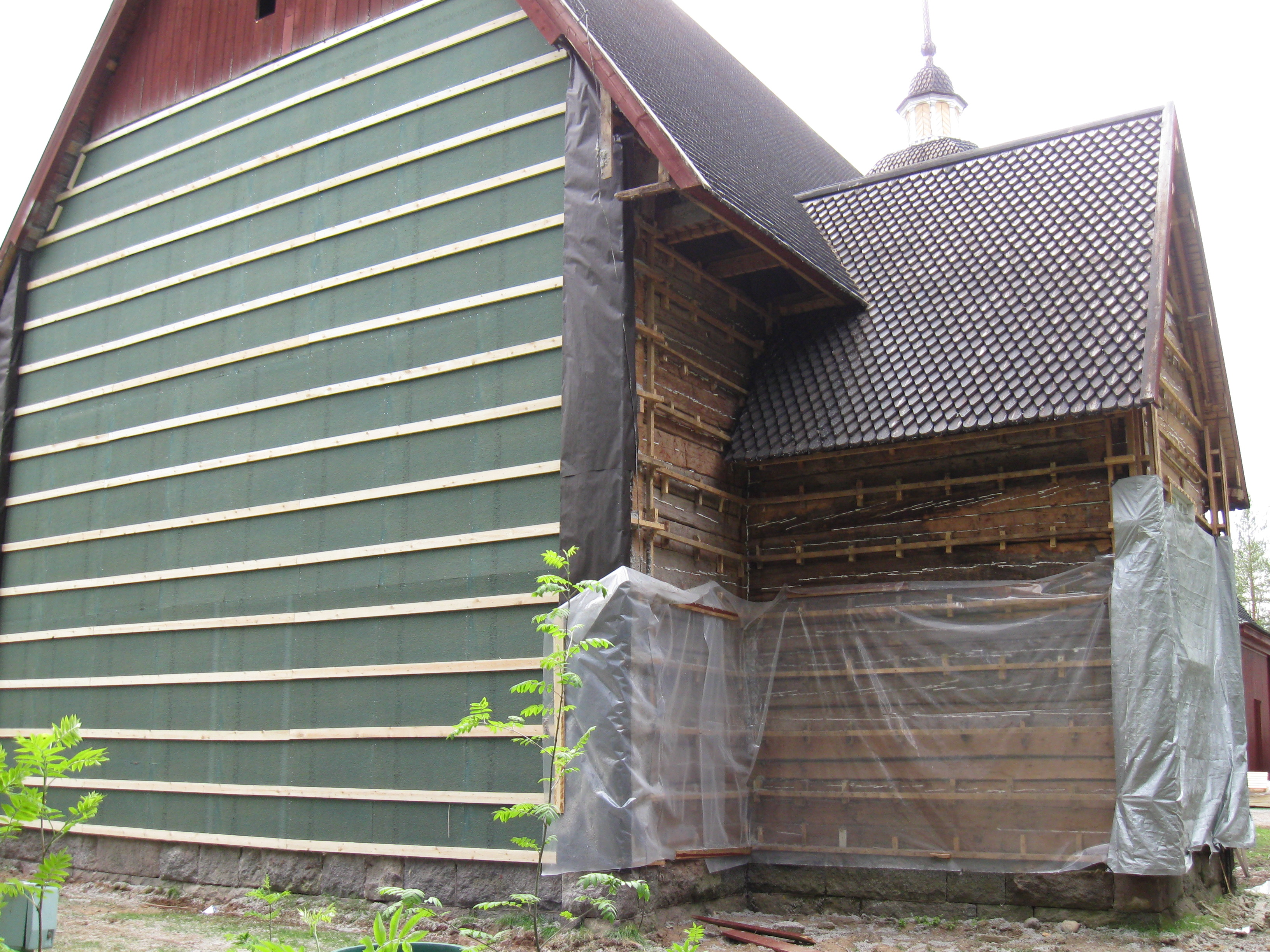 Repairing of the church of Utajärvi, Finland, in June 2009.